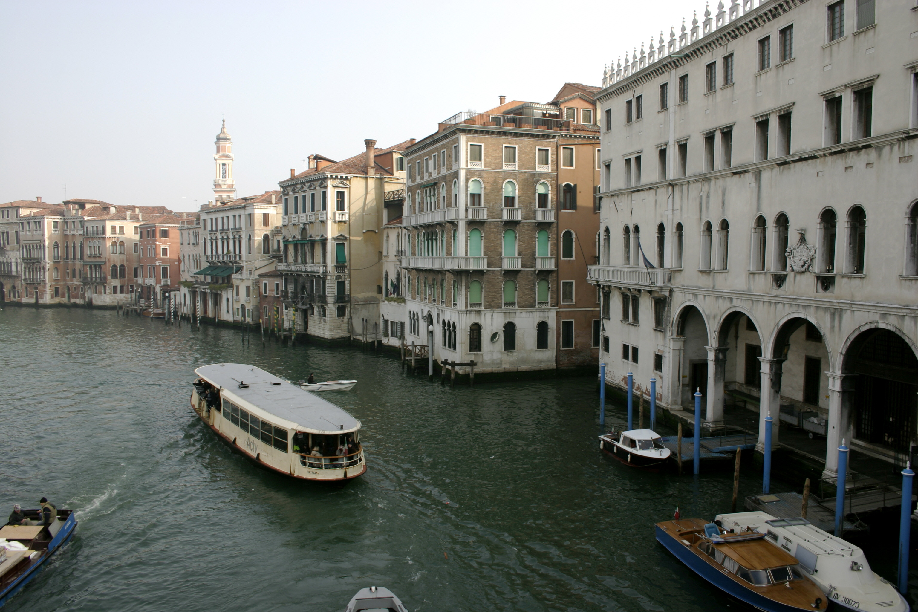 Venice - Grand Canal - Fondaco dei Tedeschi.